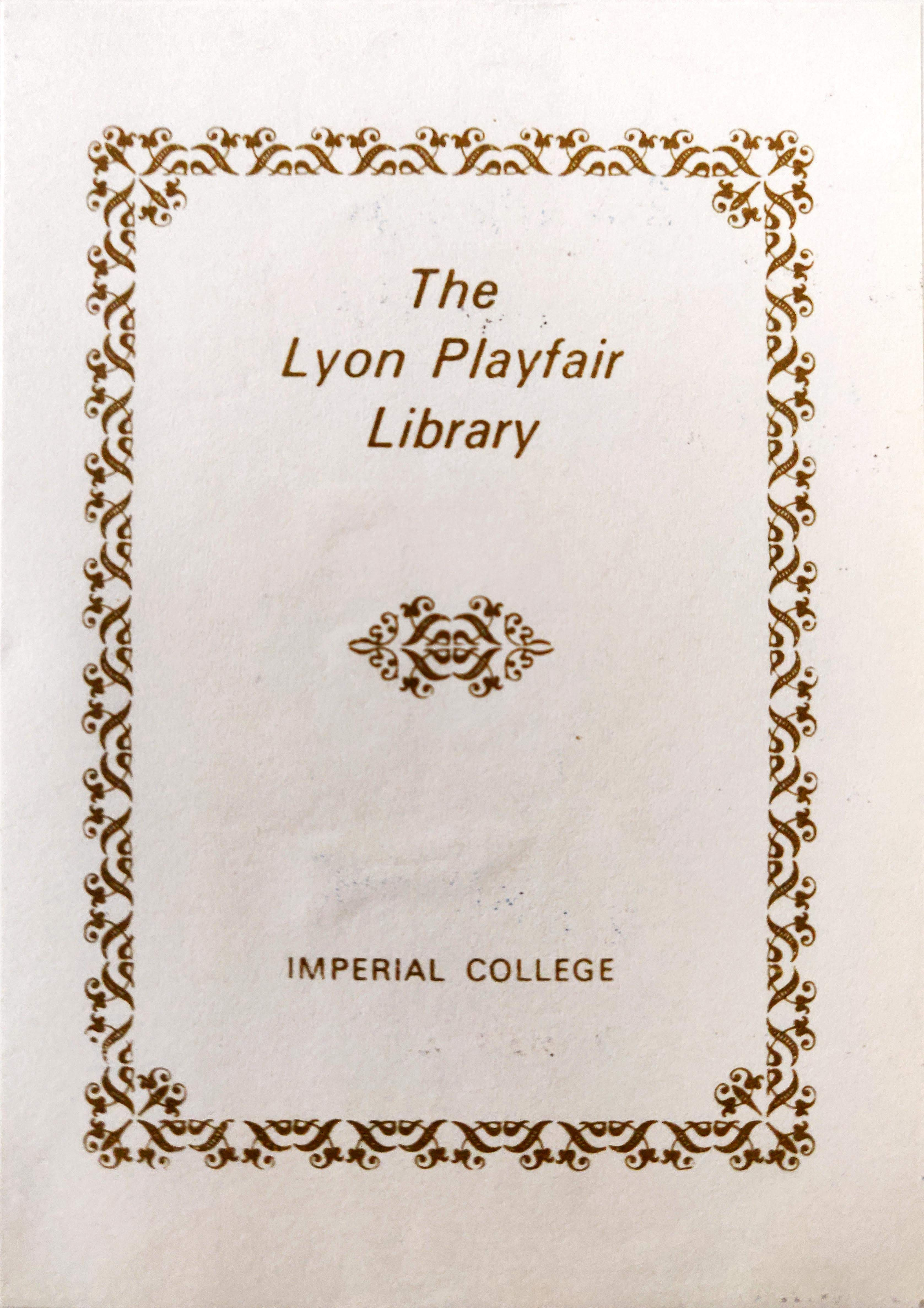 An historic bookplate from the Lyon Playfair Library at Imperial College, which is now the Central Library.